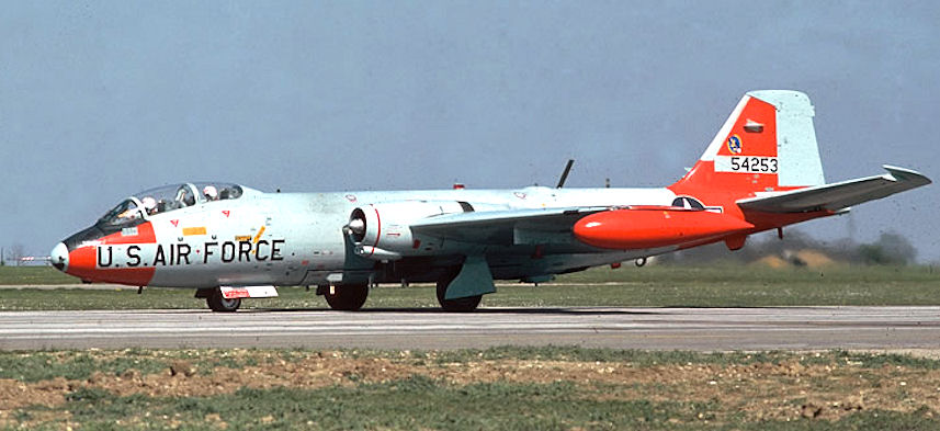 Martin RB-57E 55-4253 17th Defense Systems Evaluation Squadron